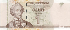 1 Transnistrian ruble